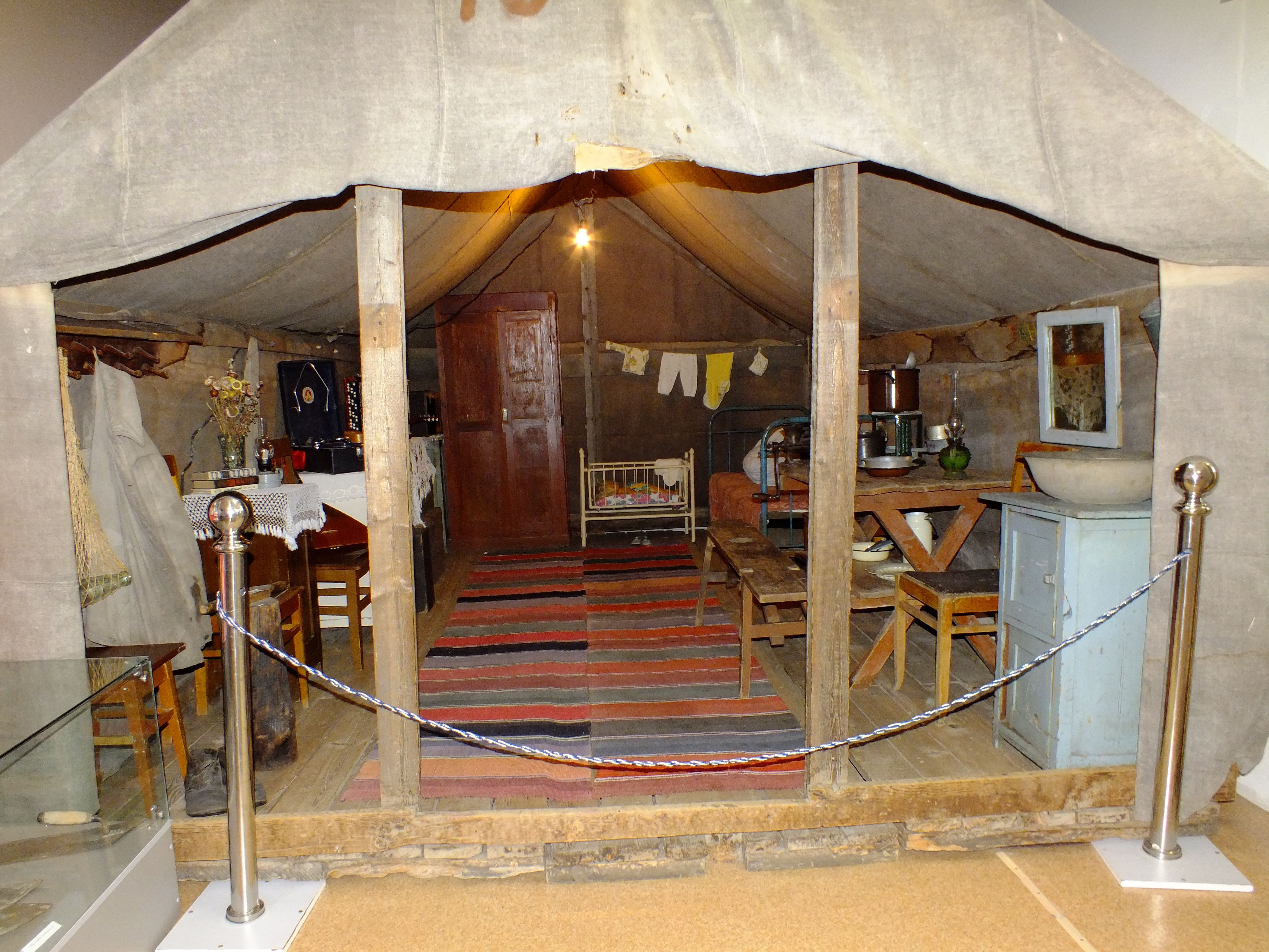 Amursk